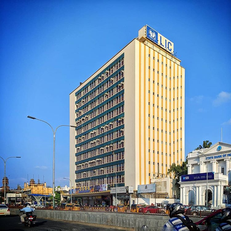 LIC building outer view